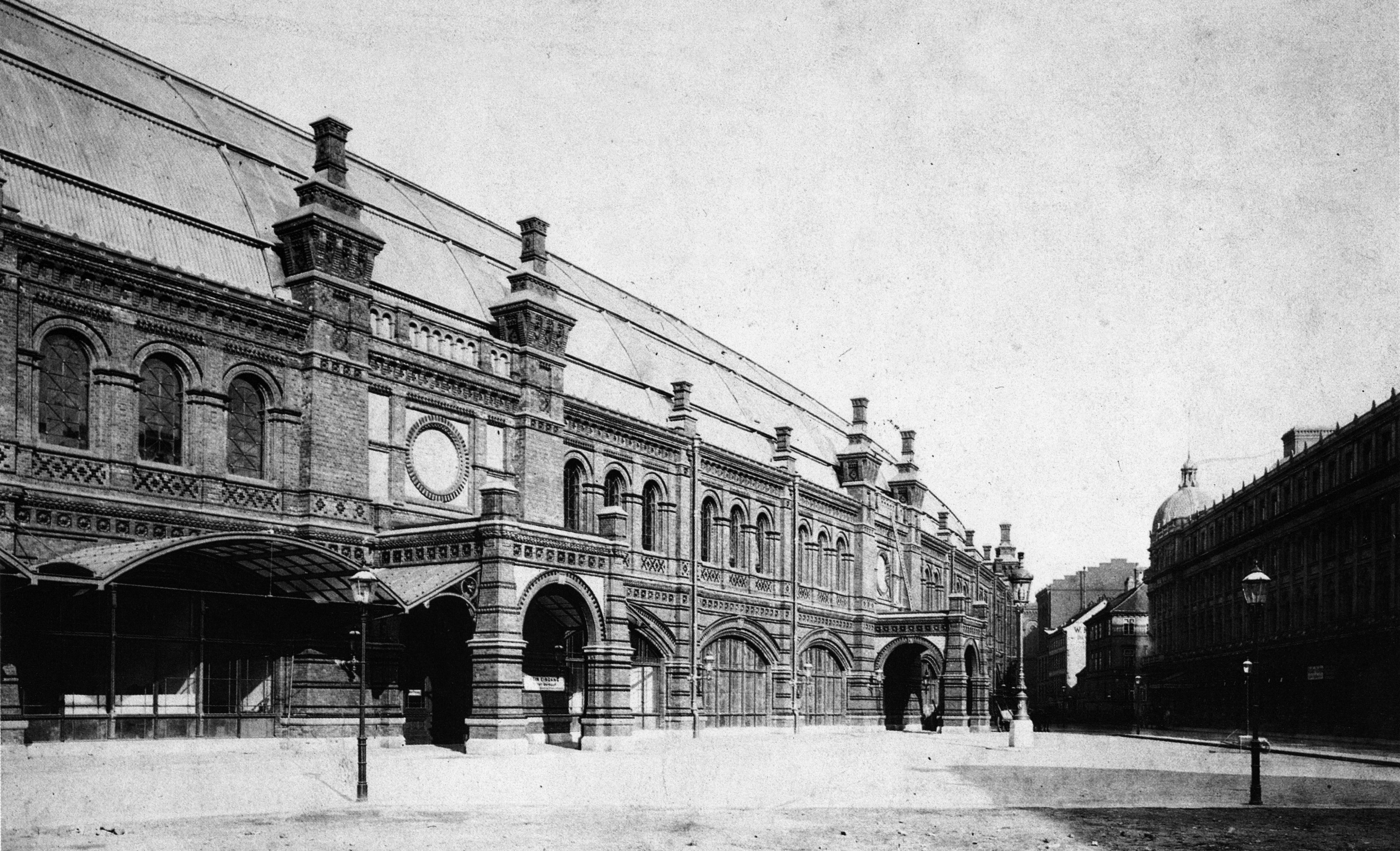 The southern side of Berlin Friedrichstraße railway station. The station had been completed three years earlier, in 1882.